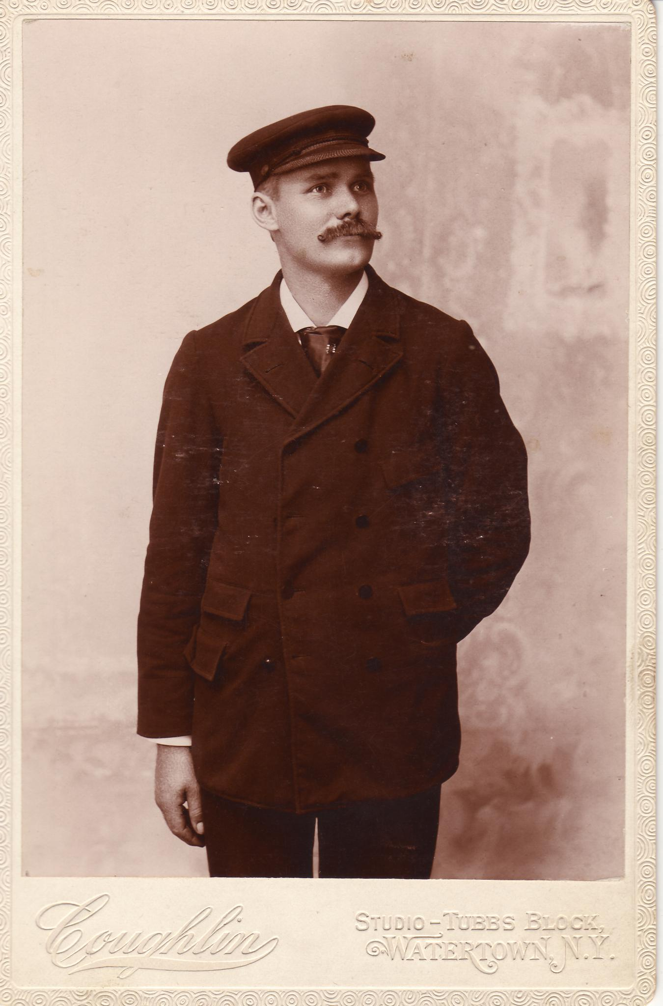 Photographic portrait of a man with a moustache, wearing a coat and hat. Taken at the Coughlin studio, Tubbs Block, Watertown, New York. This is one of a set of photographs found in a photograph album donated to the Archives by Aaron Baptiste in 2010.